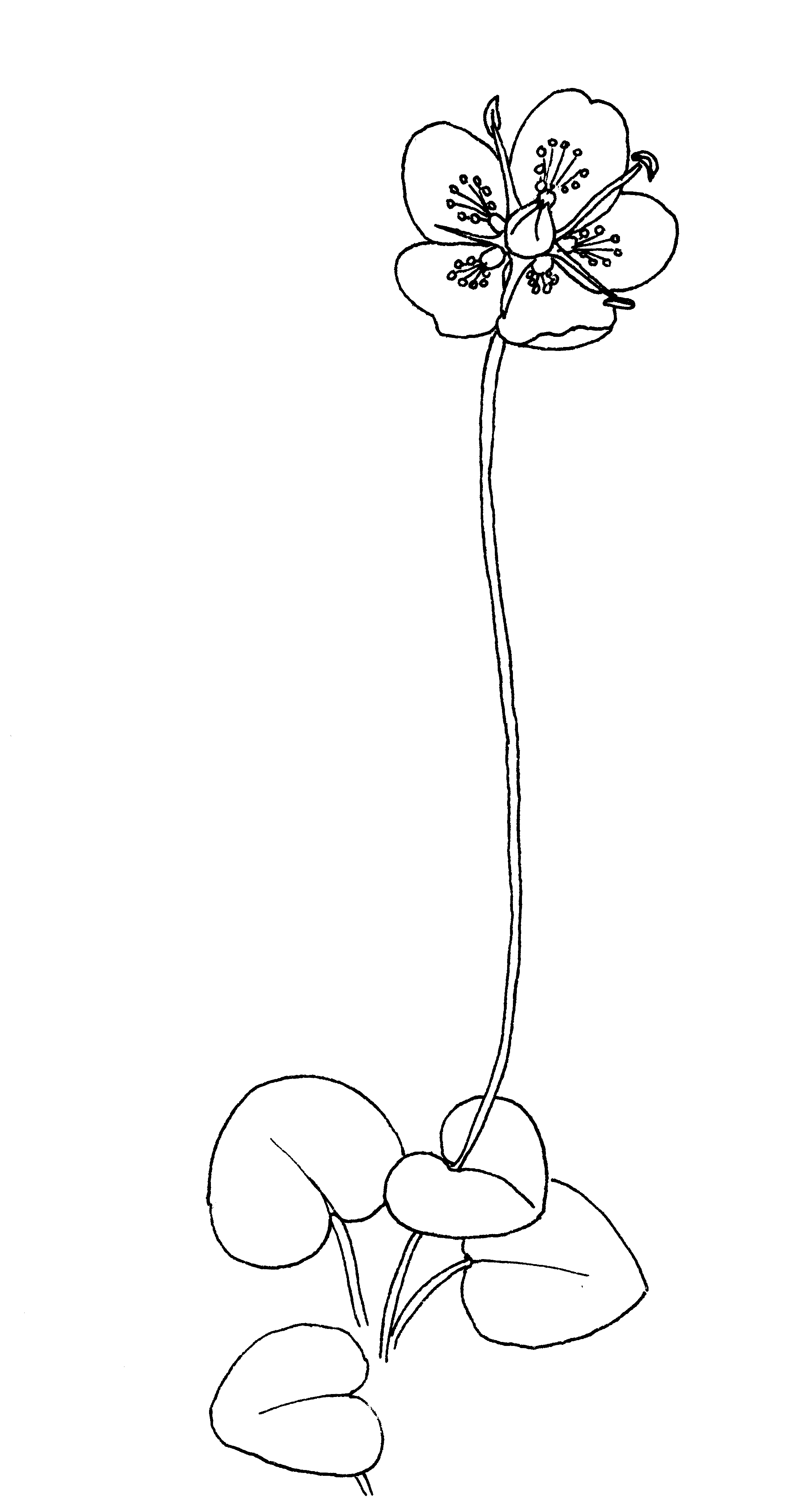 Parnassia palustris, Spiterstulen, Jotunheimen, Norway, August, 10, 1978 Pen drawing on paper by Elly Waterman Pentekening op papier door Elly Waterman